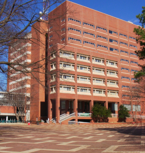 DH Hill Library at NC State University Author: Thunder